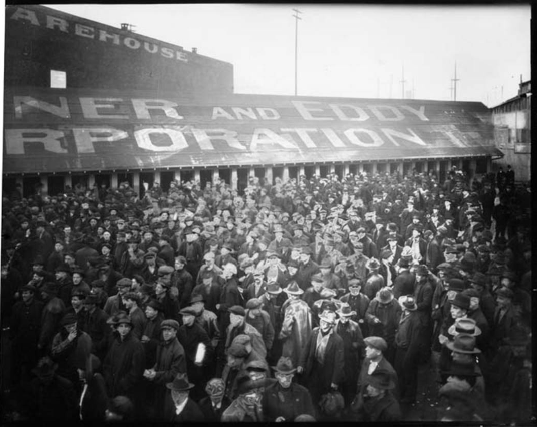 Seattle General Strike participants leaving the shipyard after going on strike, 1919.